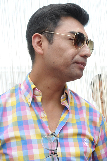 FIFA World Cup Trophy Tour